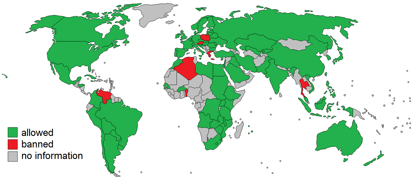 Laws regarding GM food. "Banned" - full ban or for scientific purposes only.